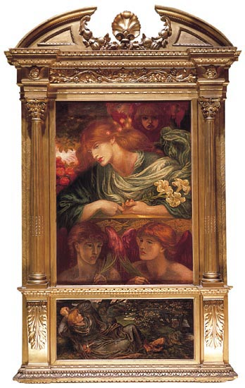 This is the second or "reduced" version. An earlier version is at the Fogg Museum at Harvard. Frame: The picture and predella are set in an elaborate baroque gold frame. Patron: F. R. Leyland Model: Alexa Wilding